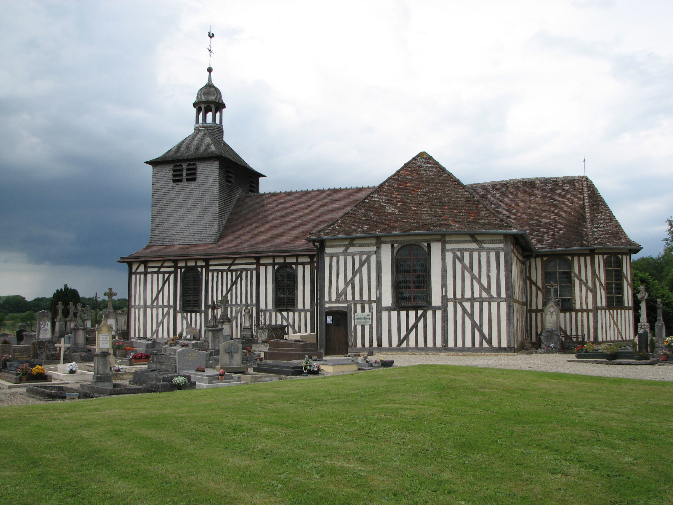 St. Quentin church, in Mathaux in the departement of Aube, built in 1761.